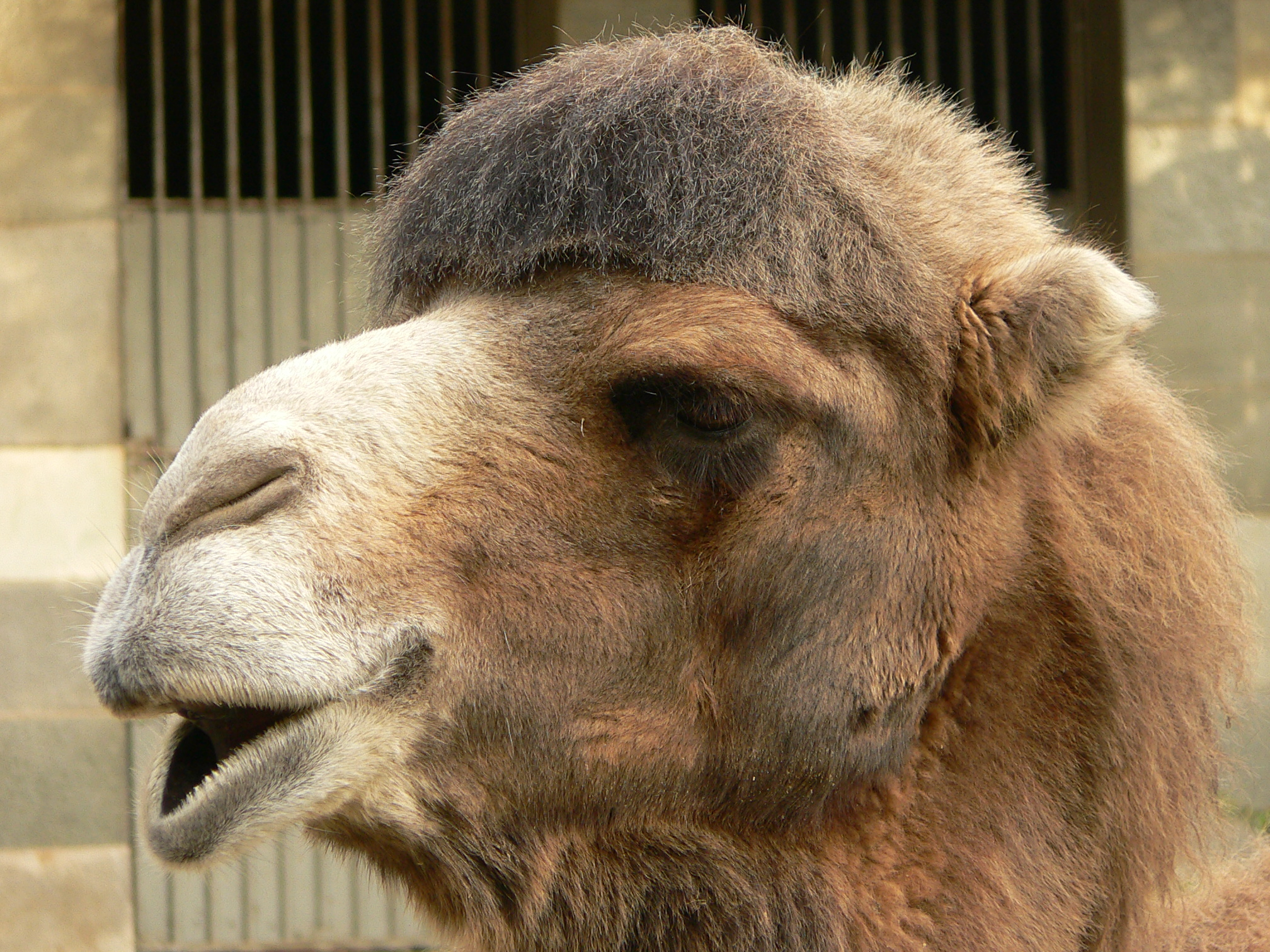 Dromedary's head